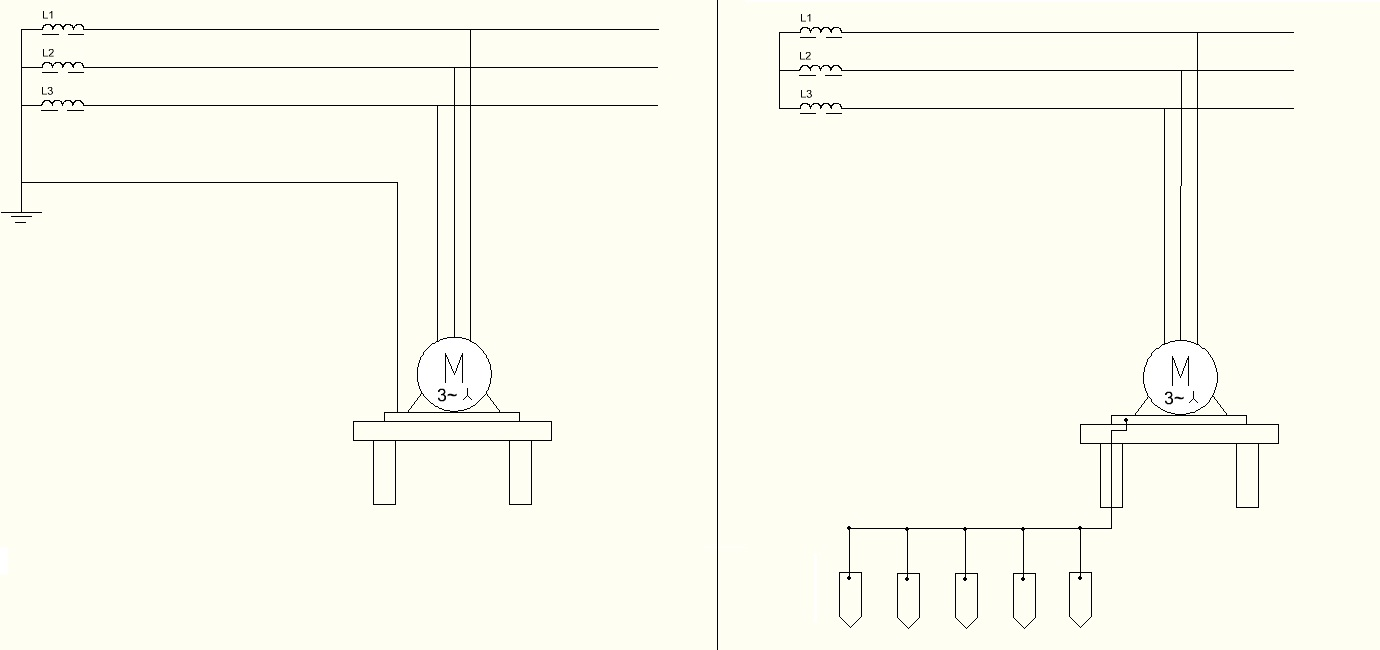 Basic measures to protect human against electric shock. But in living houses you can see more developed TN-C-S and TN-S systems.